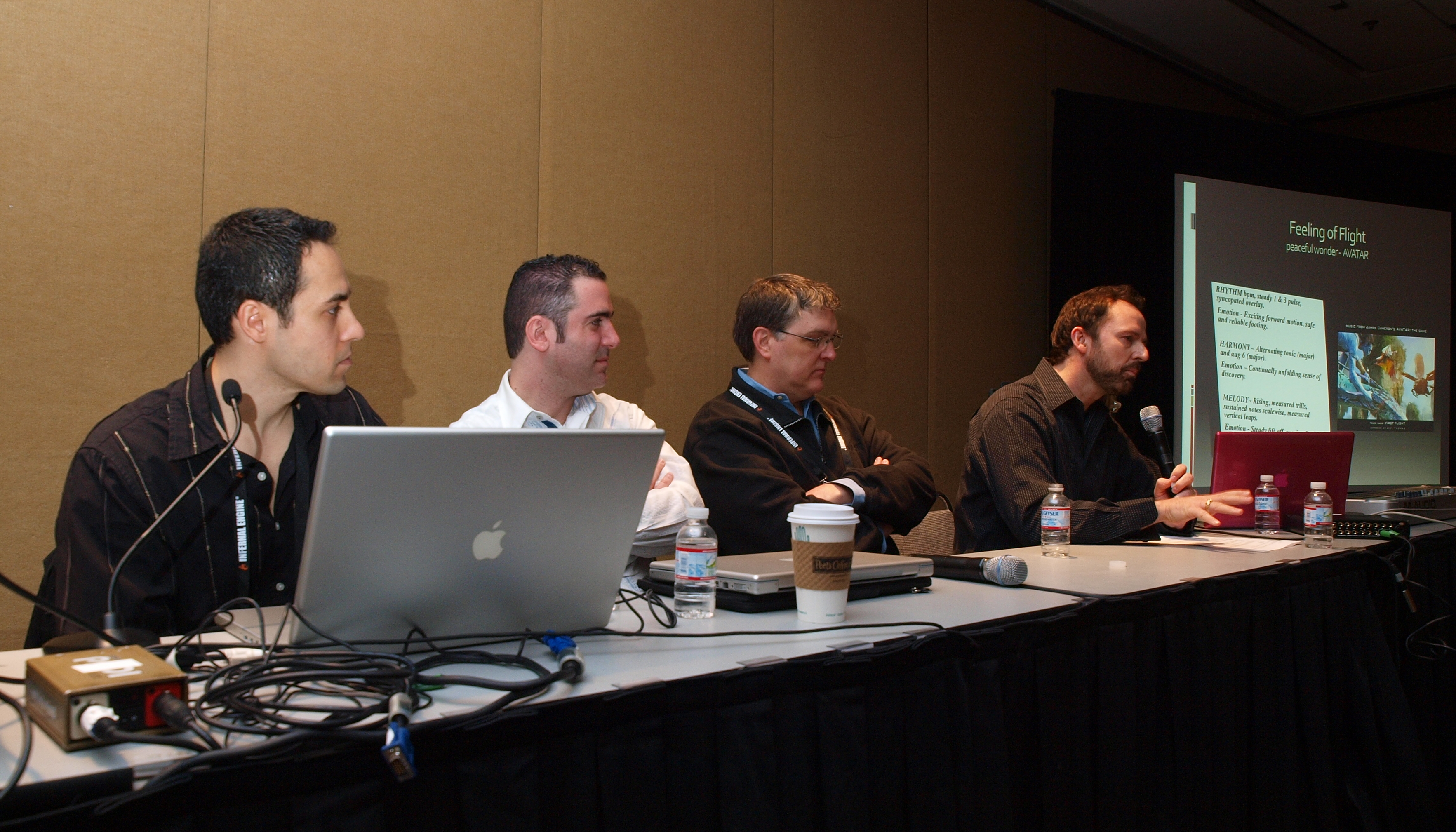 THE MUSICAL RECIPE OF EMOTION SPEAKER/S: Chance Thomas (HUGESound), Marty O'Donnell (Bungie), Tom Salta (Persist Music), Paul Lipson (Game Audio Network Guild) and Laura Karpman (Art Farm West)